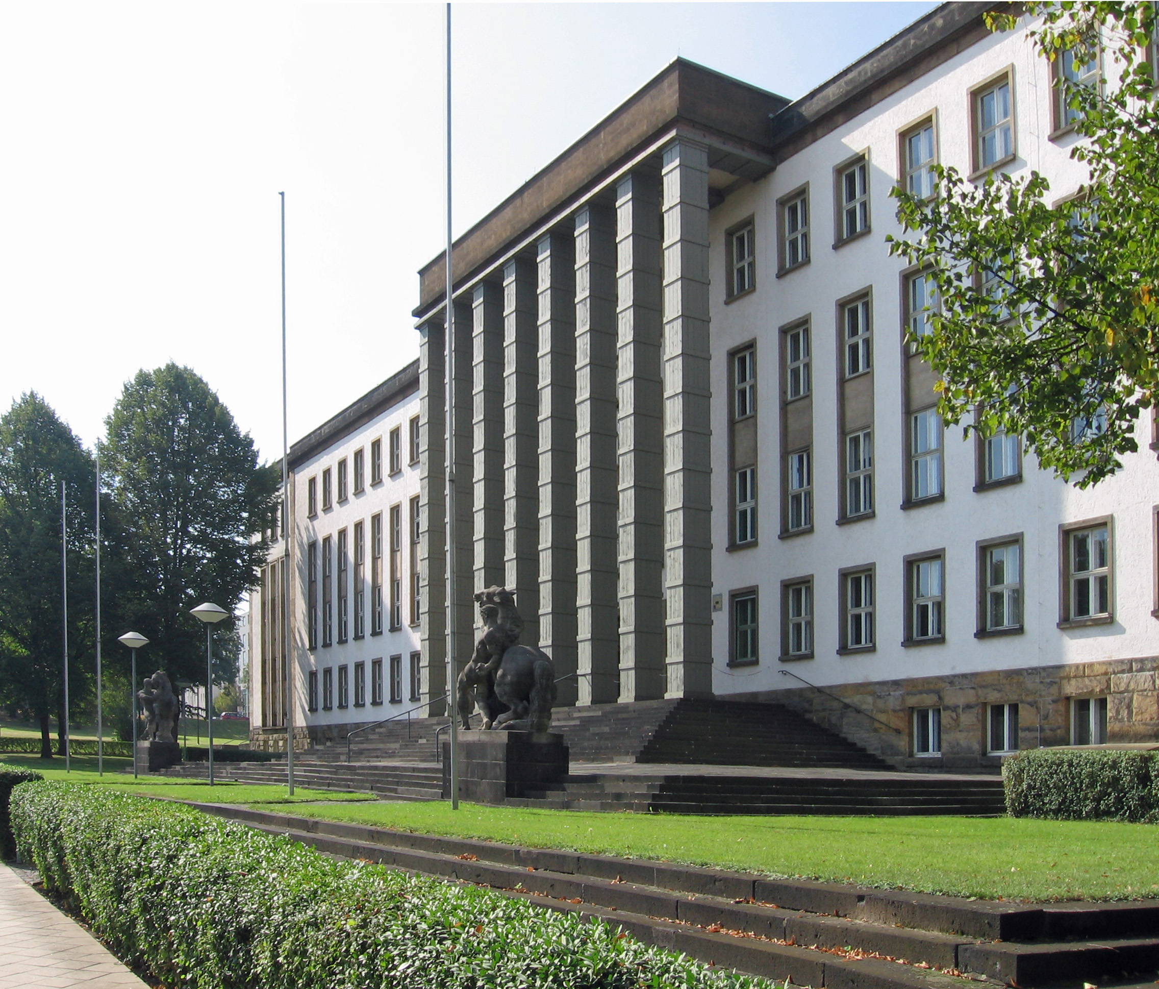 The Bundessozialgericht (German for Federal Social Court) in Kassel, former main entrance (western side)